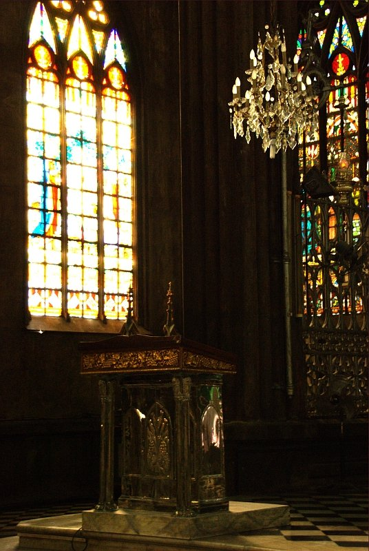 Lectern inside San Sebastian Church, Manila